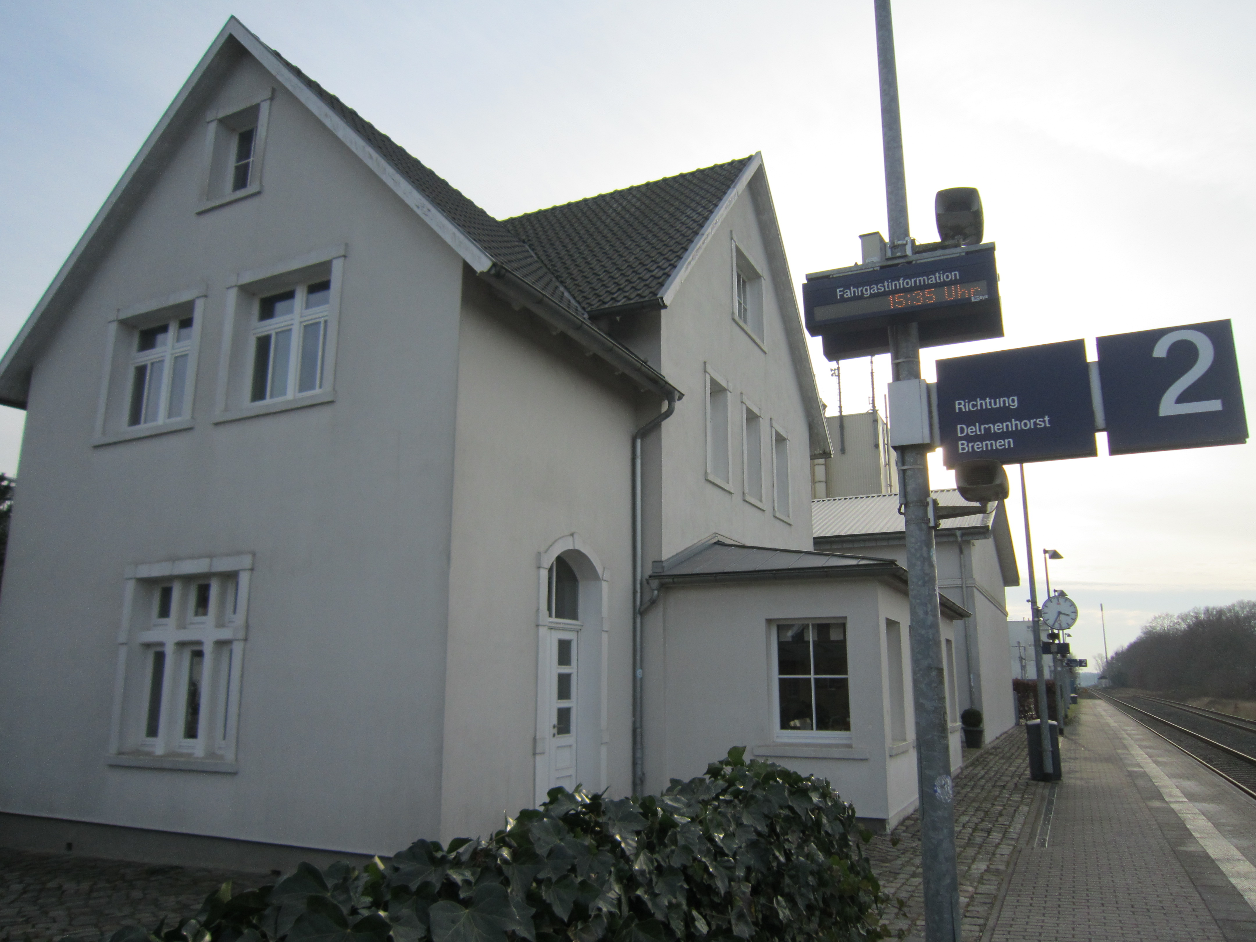 "Kulturbahnhof" Neuenkirchen (culture center in a former train station building)